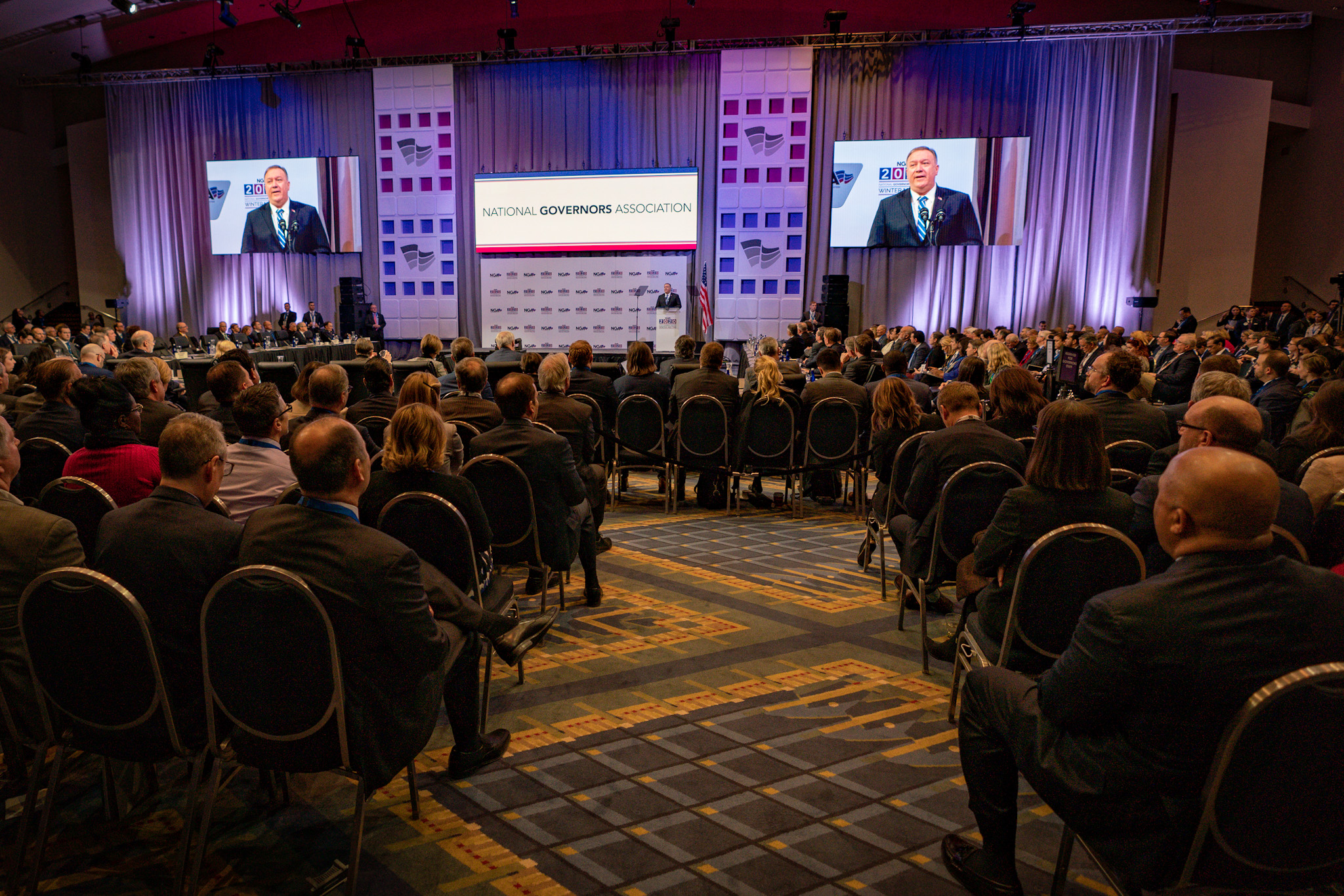 Secretary of State Michael R. Pompeo delivers remarks to the National Governors Association 2020 Winter Meeting in Washington, D.C., on February 8, 2020. [State Department photo by Ron Przysucha/ Public Domain]